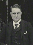 Charles Trevelyan, statesman